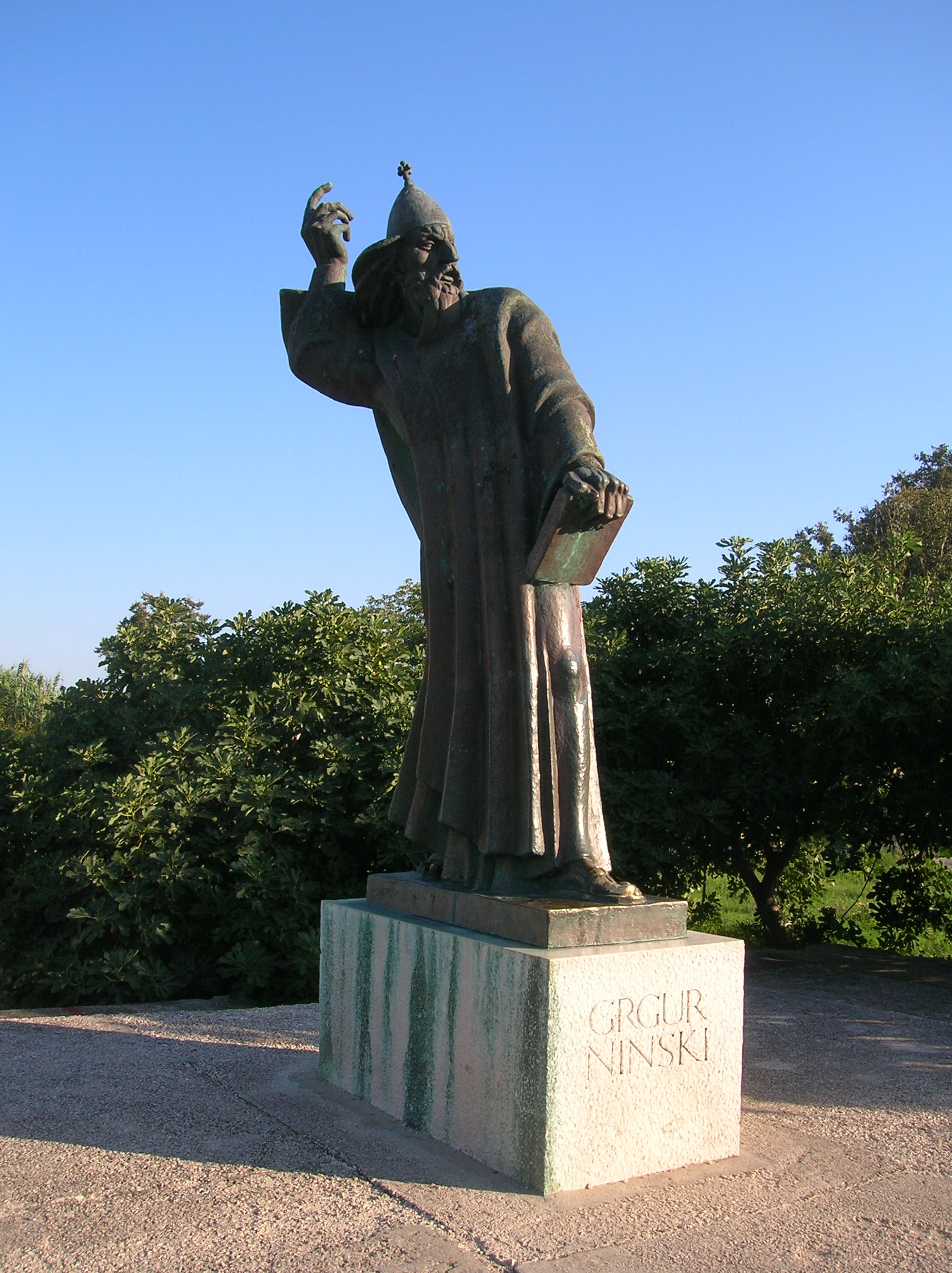 Statue of Gregory of Nin (Nin, Croatia)